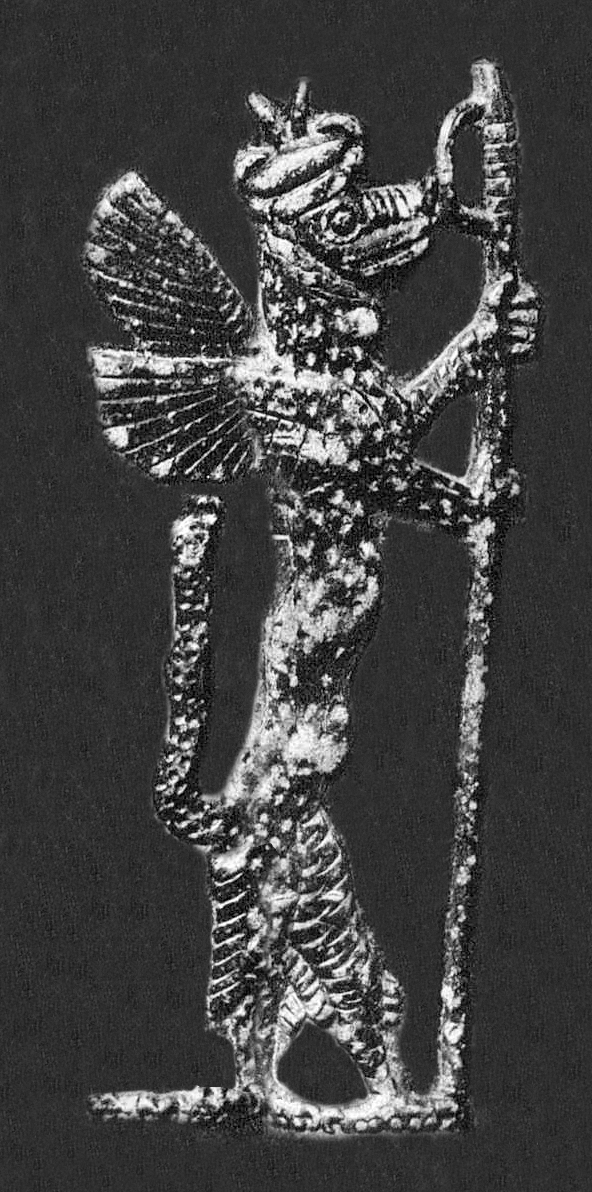 Mušḫuššu on a vase of Gudea, circa 2000 BCE